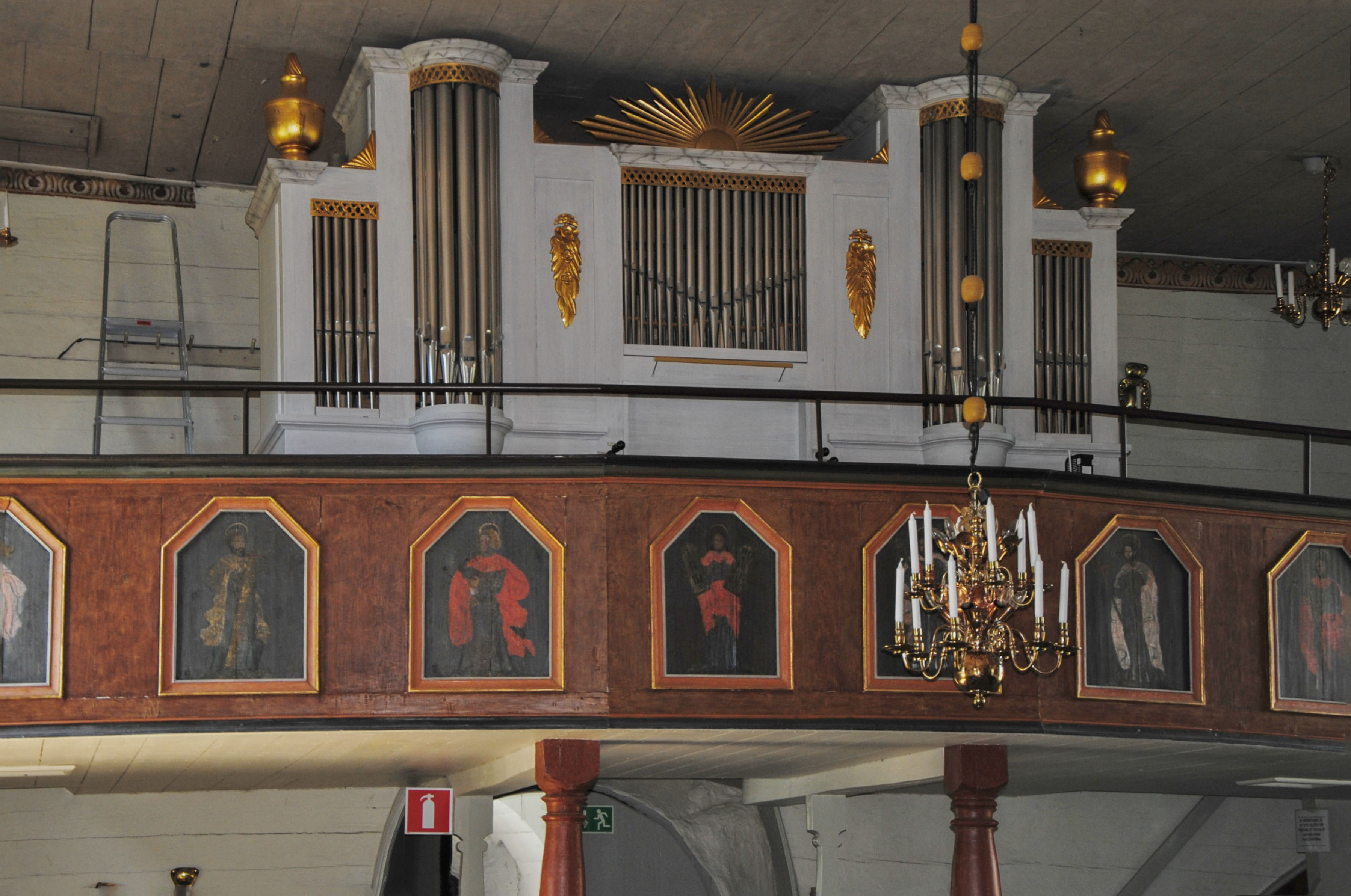 Stenberga Church. The organ